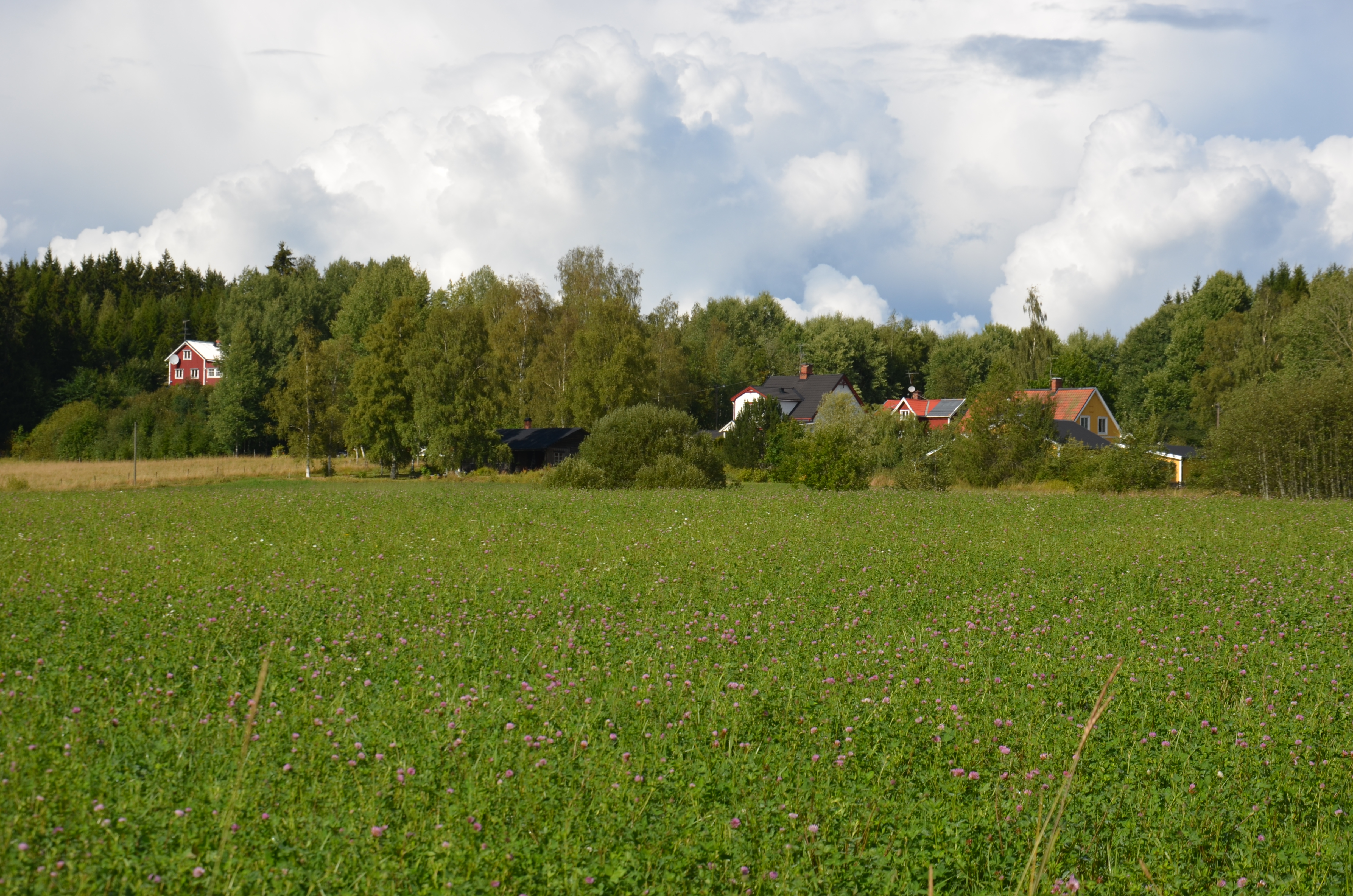 Snytsbo, Norberg